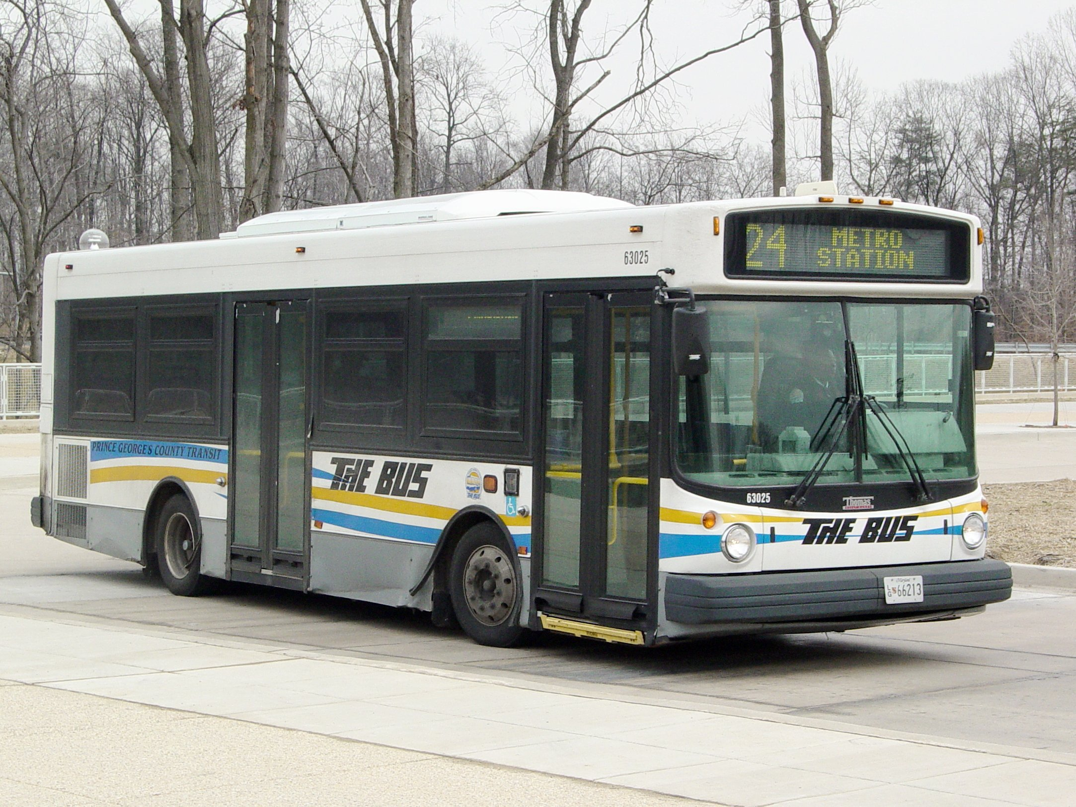 Bus 63025, part of Prince George's County, Maryland's TheBus service, arrives at Morgan Boulevard station.